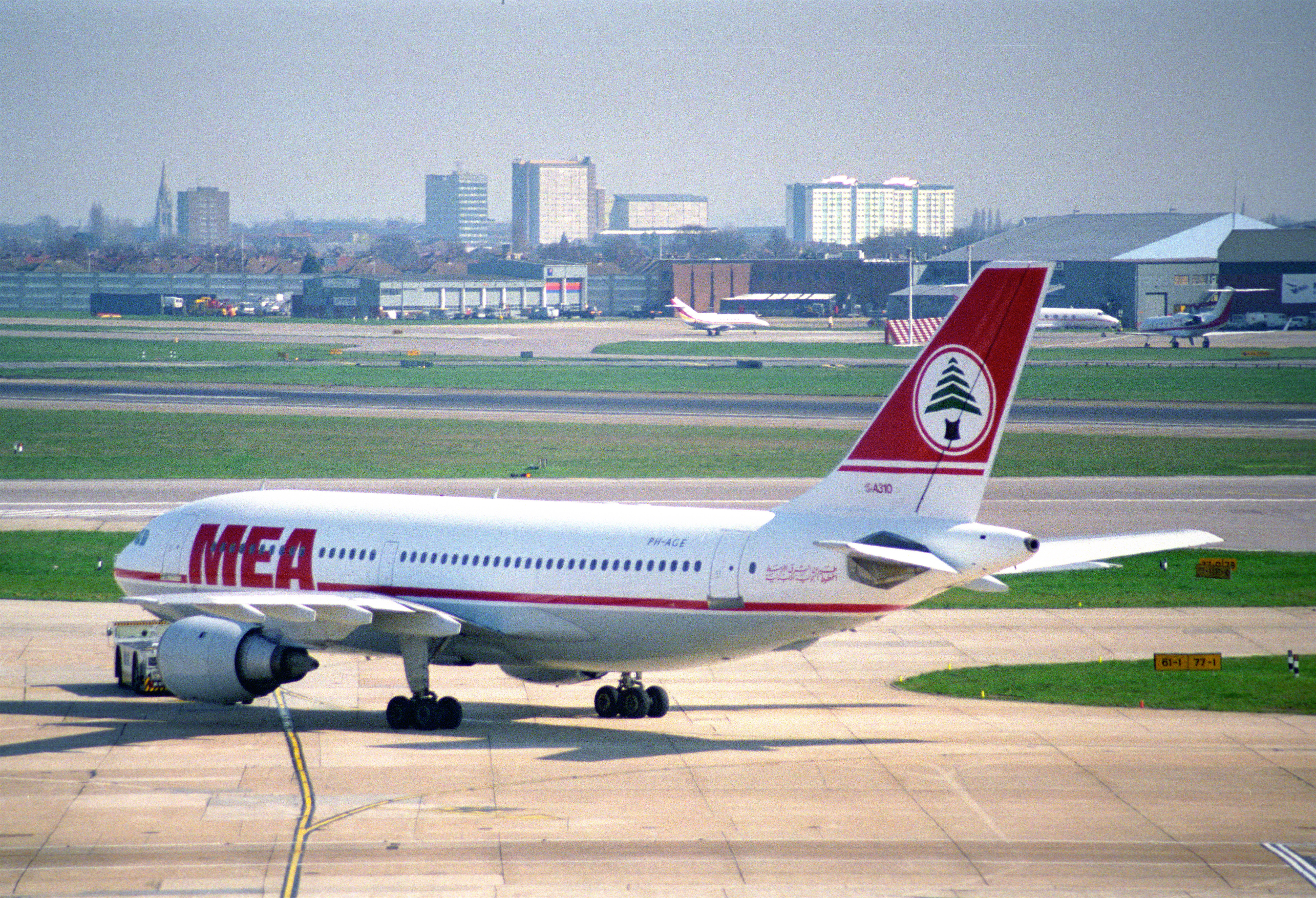 First flight: December 21, 1983...